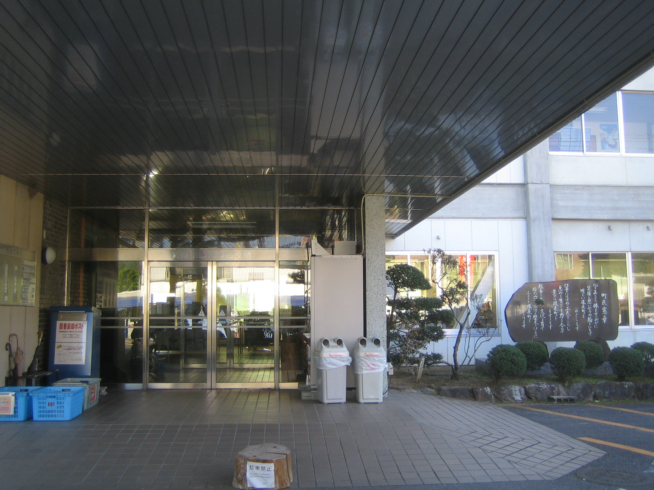 Shinshiro City Horai Branch Office (新城市鳳来総合支所), located in Shinshiro, Aichi, Japan. It was the Horai Town Office (鳳来町役場) until September 30, 2005.